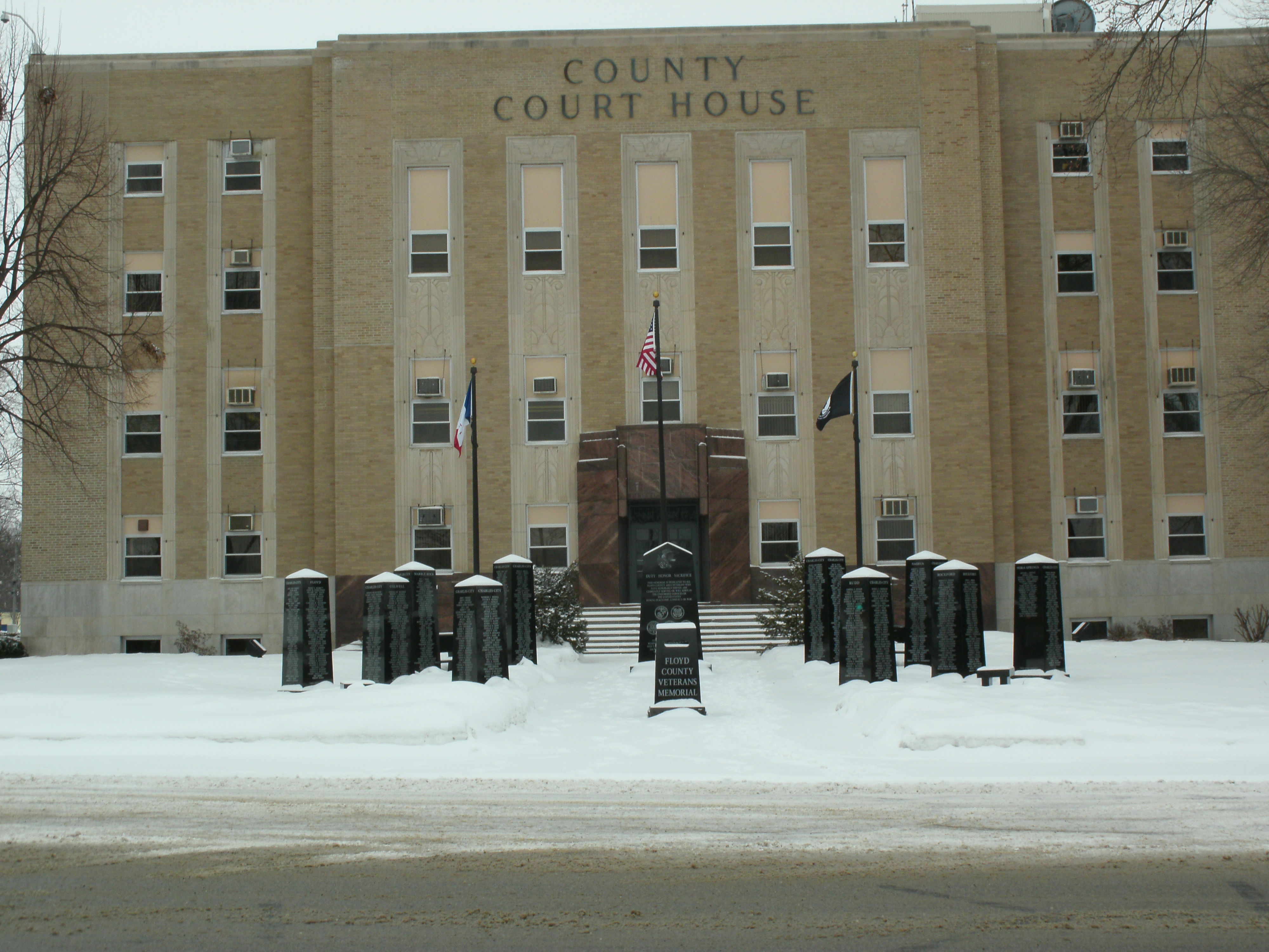 Floyd County, Iowa Courthose in Charles City, Iowa with Veterans Memorial in front